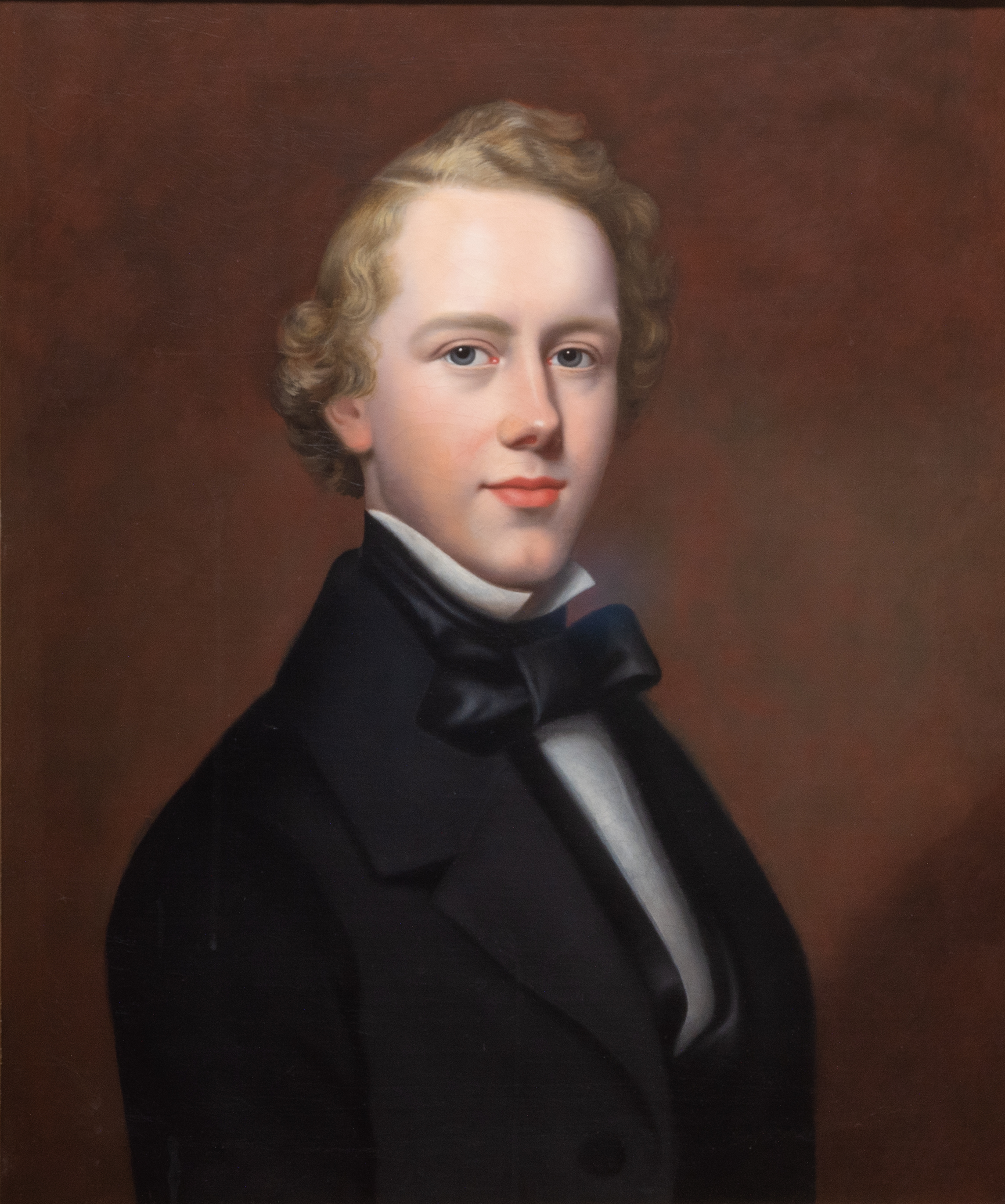 Oil portrait of James Hudson Taylor aged 21. From OMF International (UK)